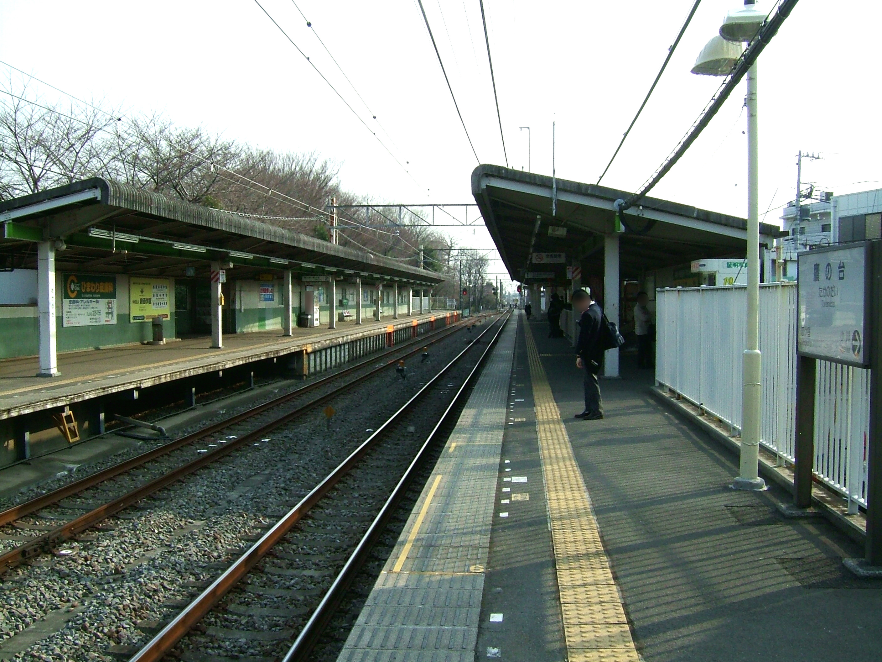 Takanodai Station platform (Seibu Kokubunji Line)